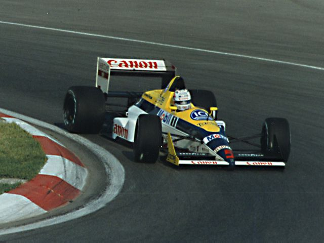 Nigel Mansell driving for WilliamsF1 at the 1988 Canadian Grand Prix.